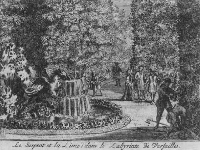 Labyrinthe de Versailles Etching 15.5 x 19.5 cm